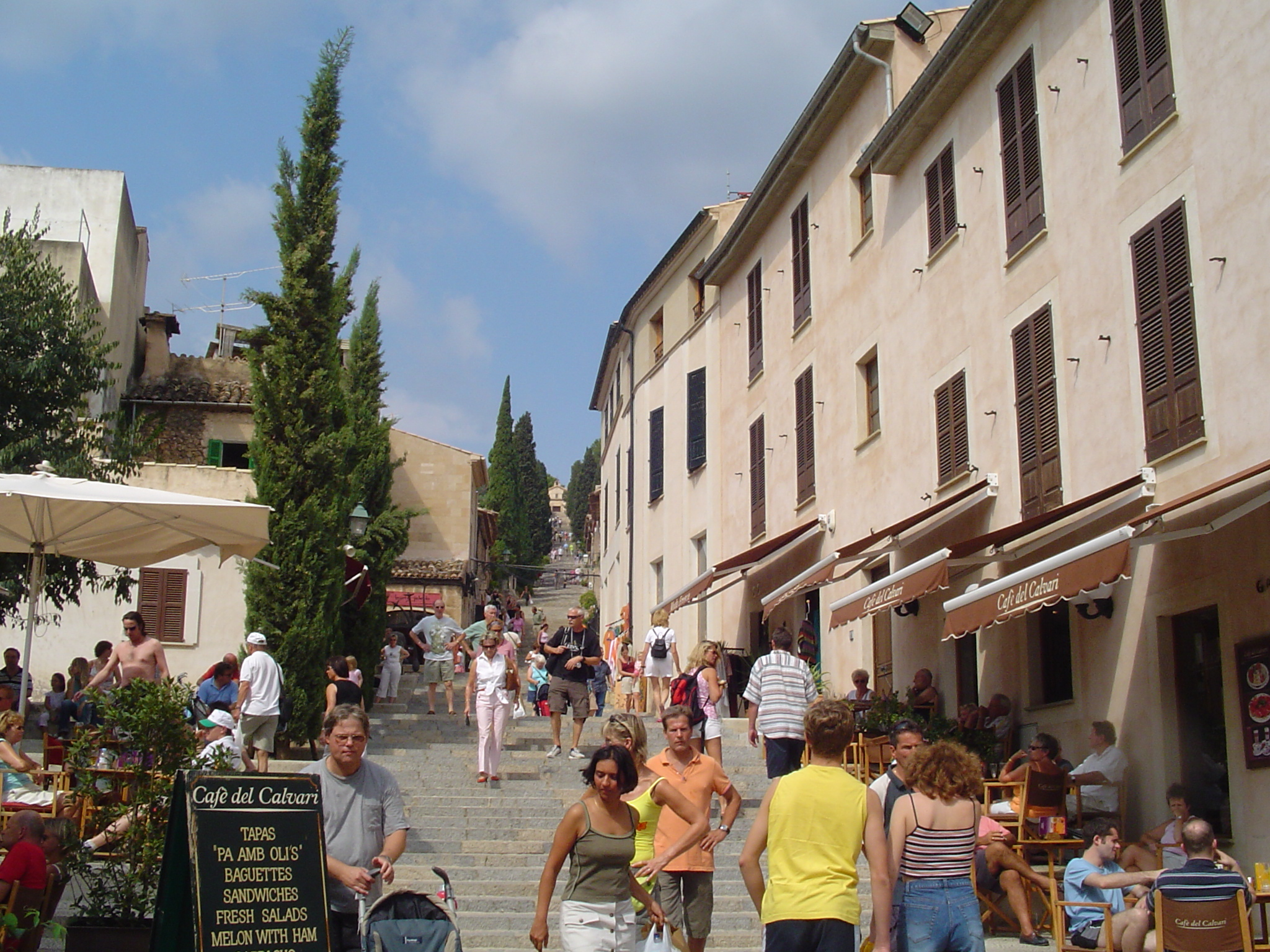 Town of Pollenca, Mallorca, Spain